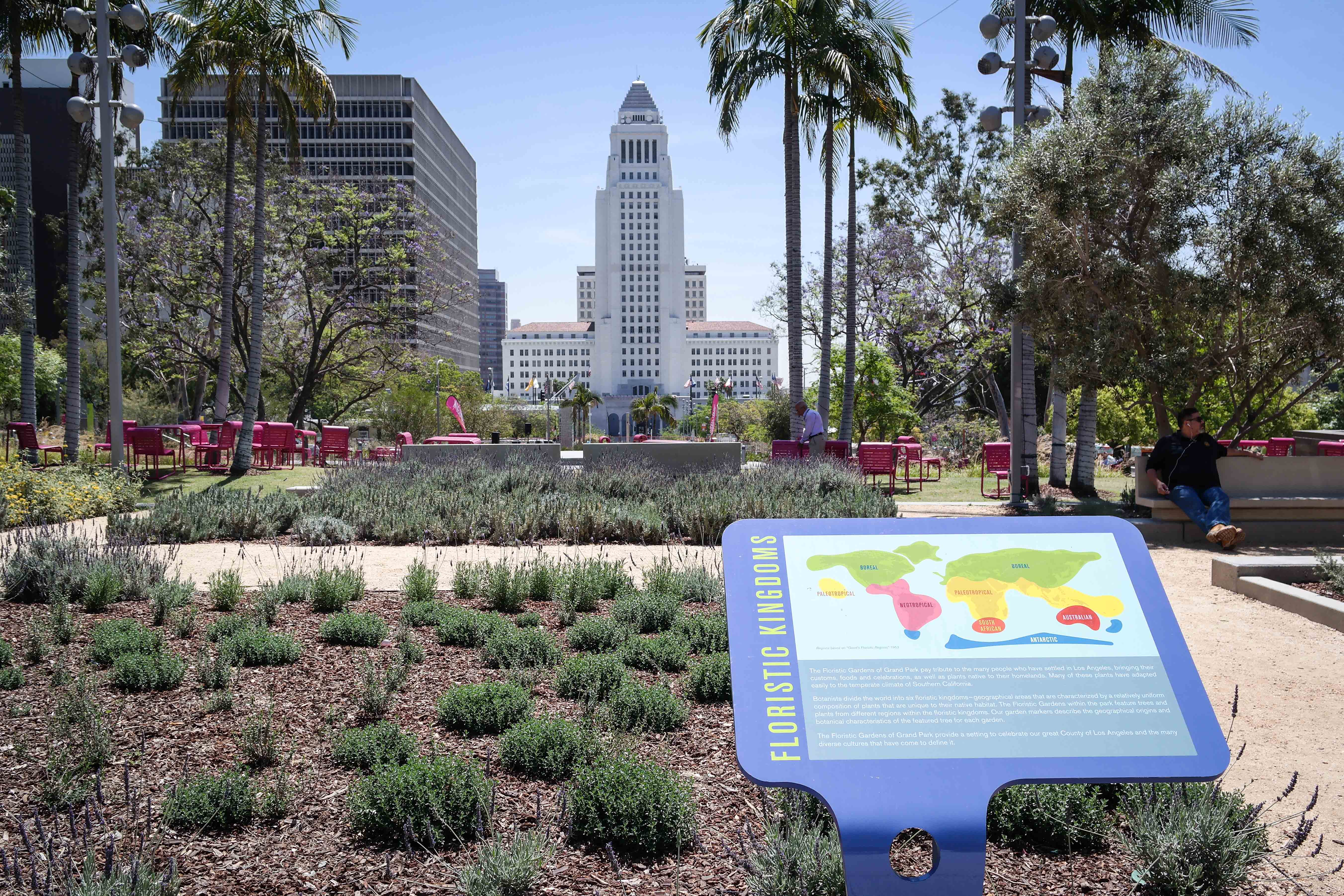 A view of Los Angeles City Hall from Grand Park